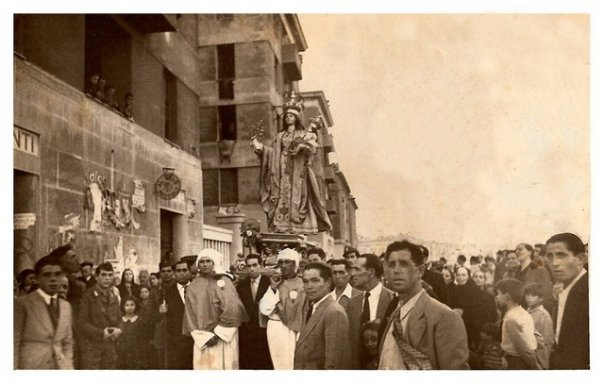 Our Lady of Peace feast 1945